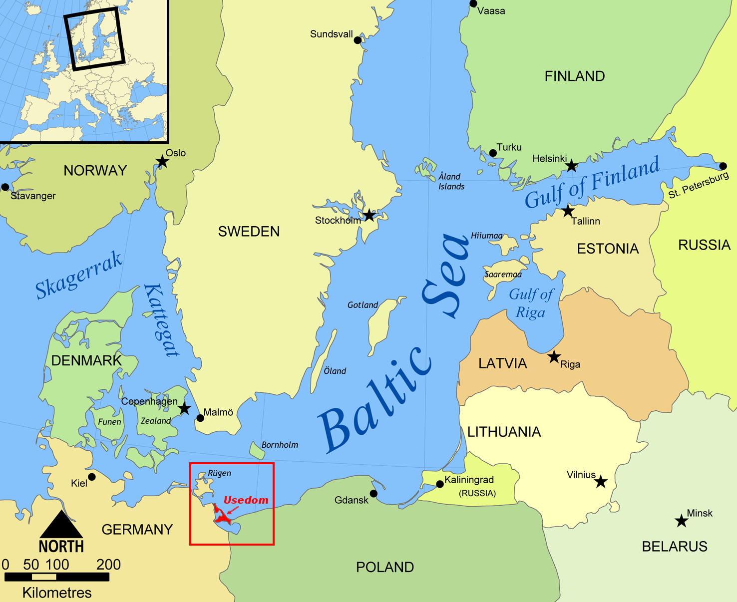 Map of the Baltic Sea, German island of Usedom highlighted.